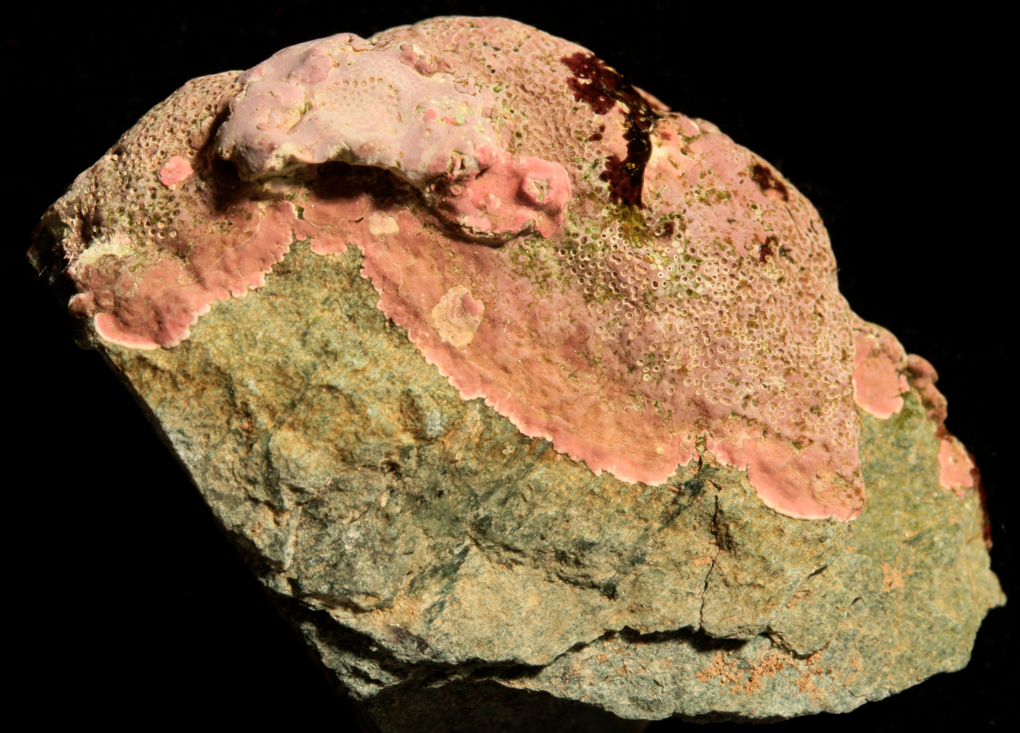 Lithophyllum orbiculatum (Foslie) Foslie Intertidal Castalia, Grand Manan Island, New Brunswick, Canada SEM of underside available at File:Lithophyllum underside.jpg